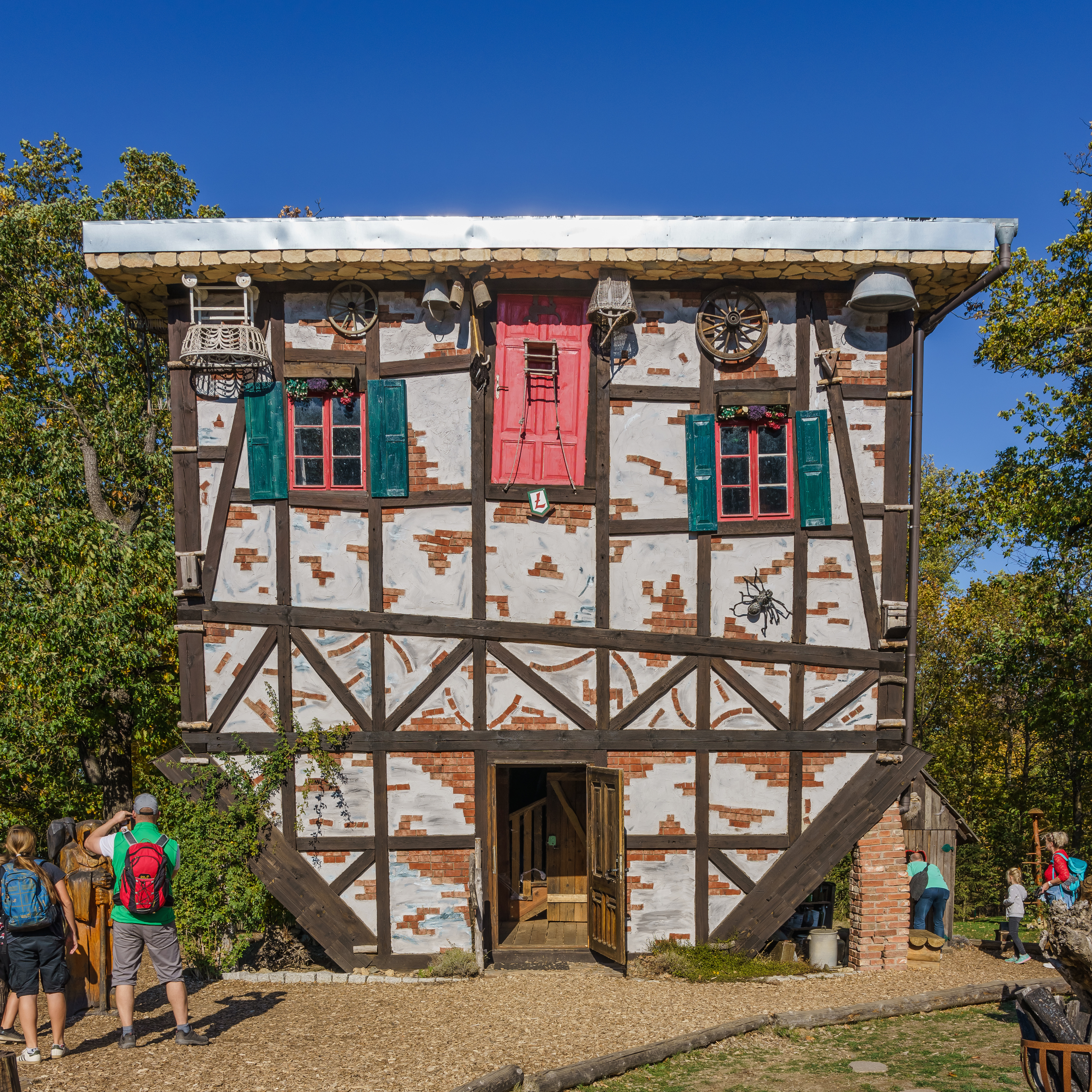 Witches' Point in Thale, Germany